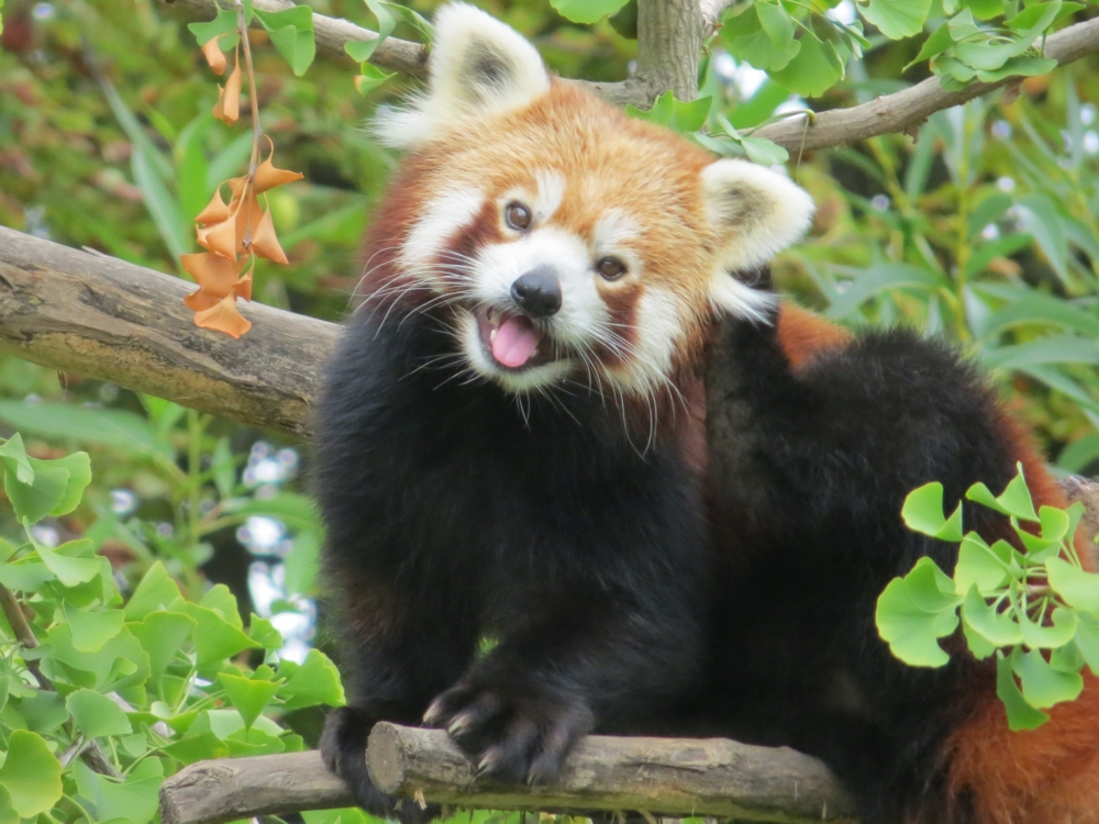 Red Panda amongst the ginkgo trees